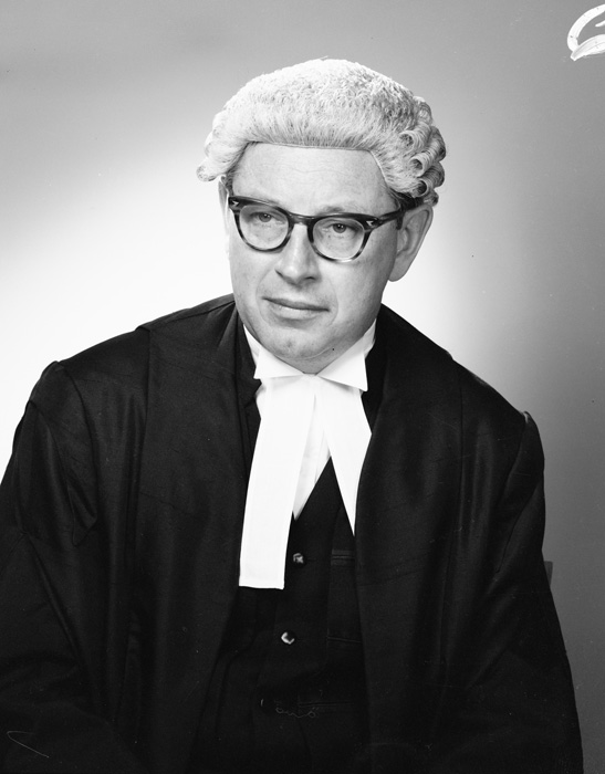 Australian barrister (and future chief justice) Anthony Mason, during his term as Solicitor-General. He is wearing the court dress of a barrister.